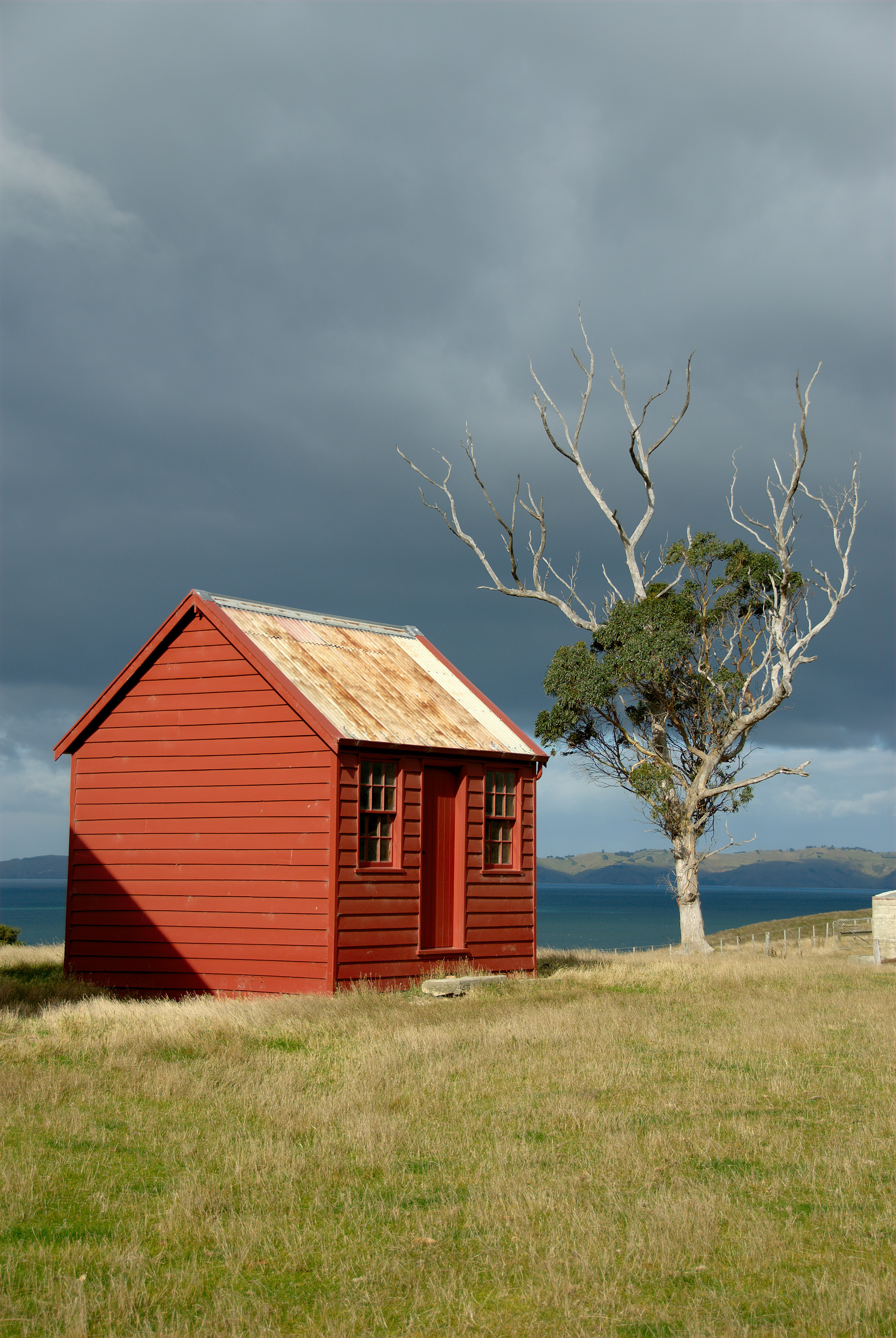 This storehouse next to the granary at Matanaka is one of New Zealand's oldest surviving wooden buildings. These buildings are registered Category I historic places with the New Zealand Historic Places Trust.